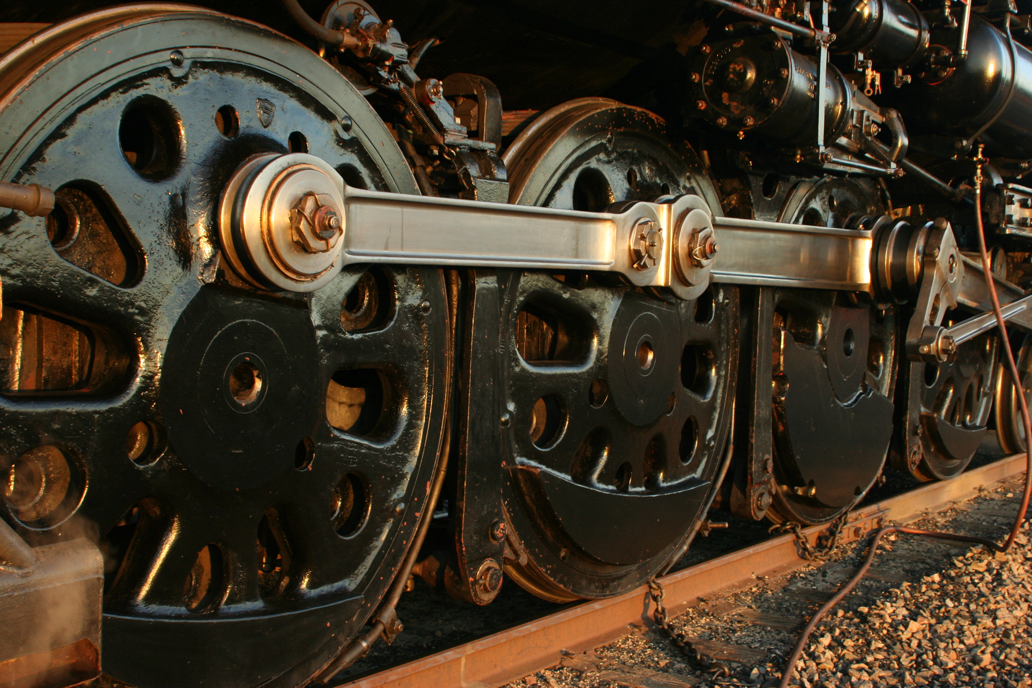 Drivers on MILW 261 steam locomotive